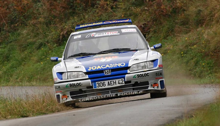 Private 306 Kit-Car of David Salanon in Finale des rallyes 2010